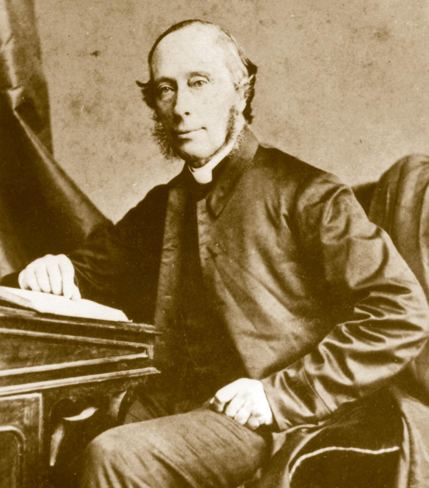 George Whitaker, first provost of Trinity College This Canadian work is in the public domain in Canada because its copyright has expired due to one of the following: 1. it was subject to Crown copyright and was first published more than 50 years ago, or it was not subject to Crown copyright, and 2. it is a photograph that was created prior to January 1, 1949, or 3. the creator died more than 50 years ago.